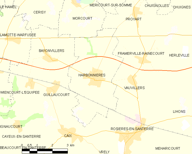 Map of French municipality Harbonnières